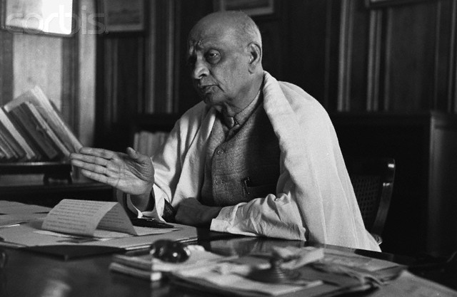 ca. 1940, Probably India --- Vallabhbhai Patel (1875-1950) the Indian politician, at his desk. He was deputy Prime Minister from 1947 until his death.